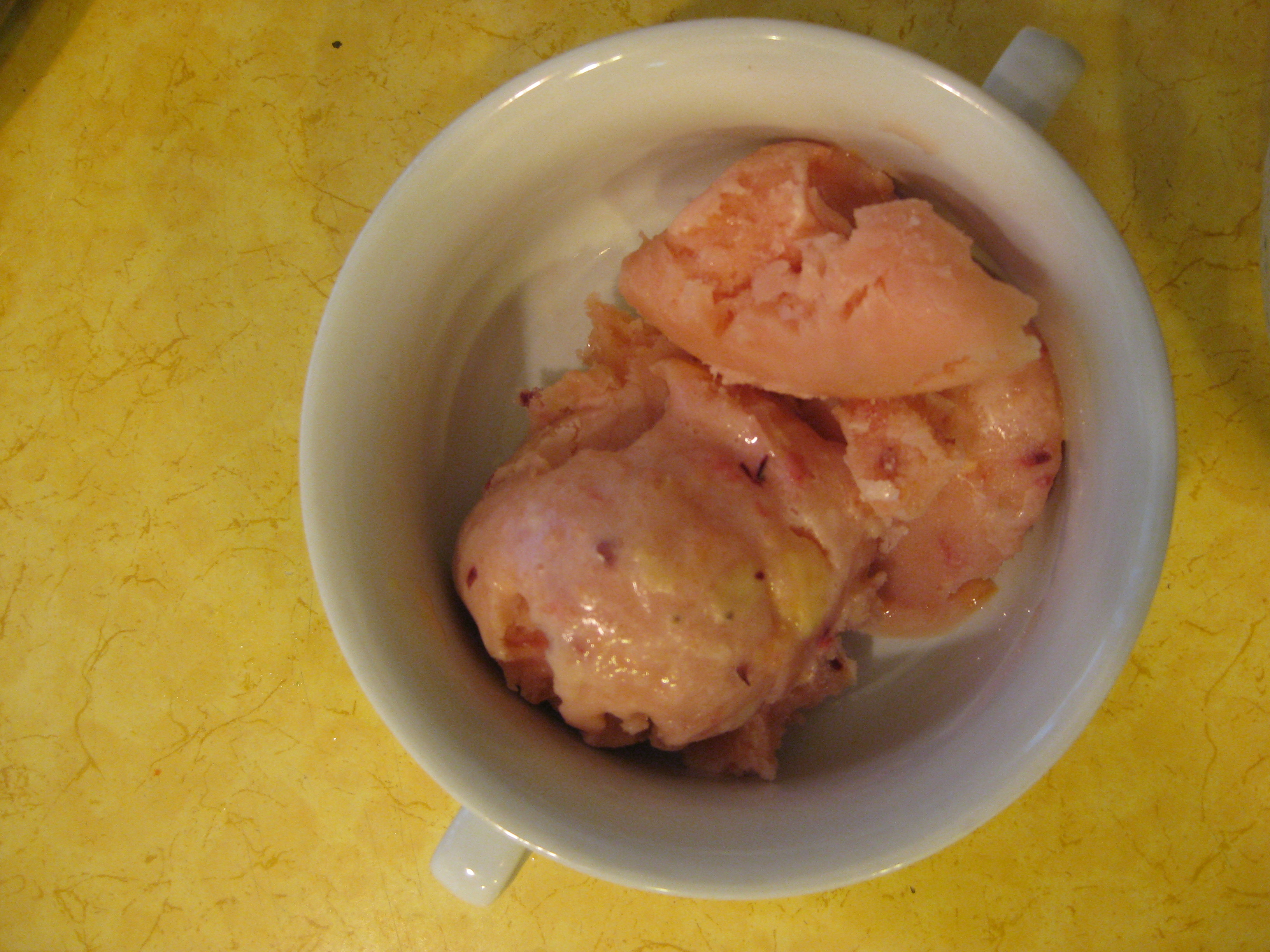 Bananas, pineapple, and cherries--frozen in evaporated milk, orange and lemon juice.